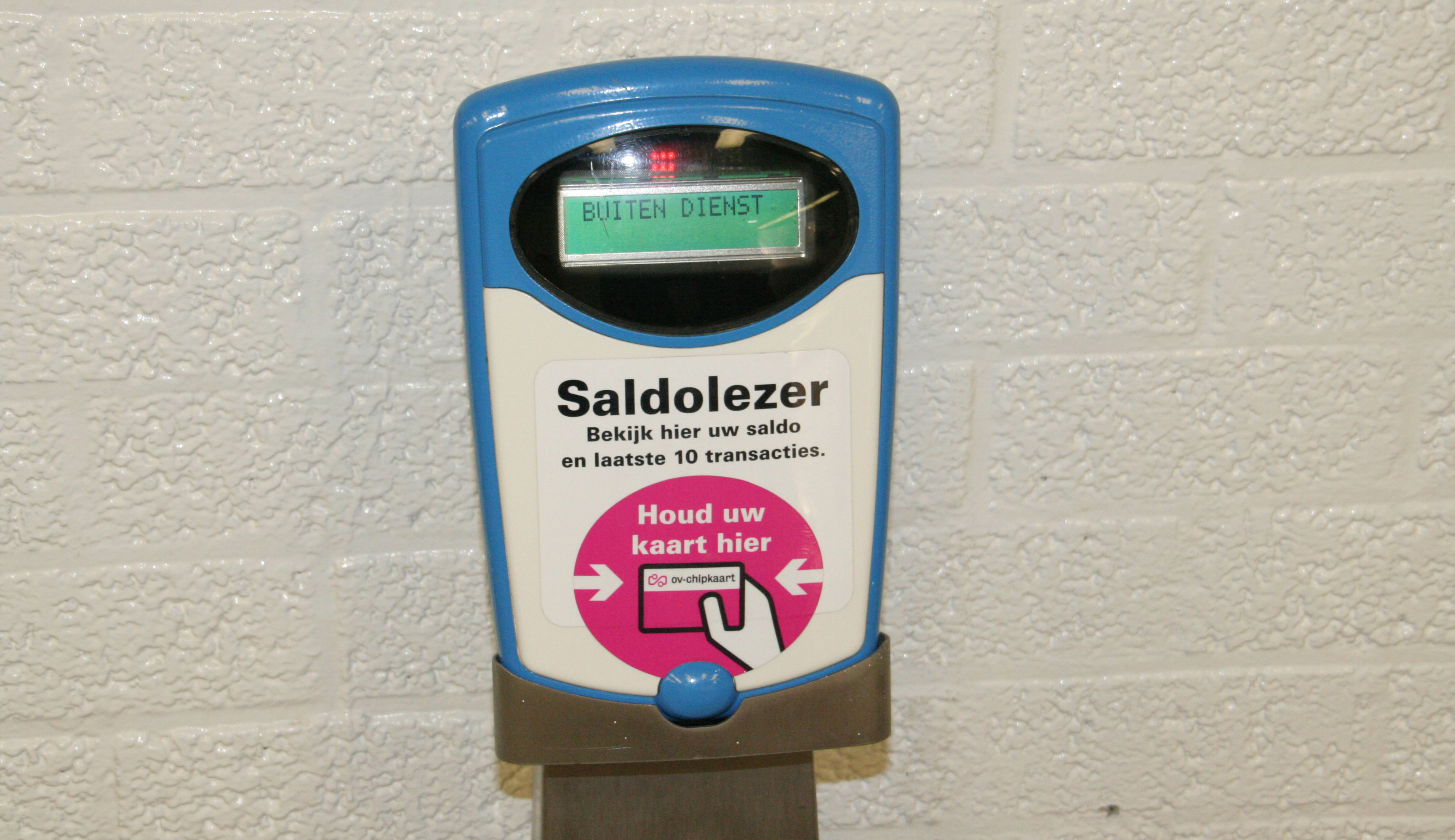 OV-Chipkaart saldo checker on Amsterdam Central Station (out of order)